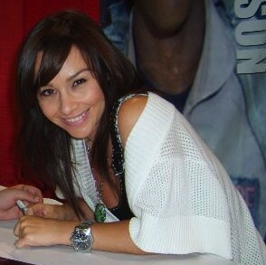 Danielle and a fan at AdventureCon 2008, Cropped.